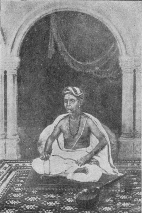 A painting of the Carnatic music composer, Tyagaraja (1767–1847), from the Jaganmohan palace in Mysore. The painting features in MS Ramaswami Aiyar's 1927 biography of Tyagaraja.